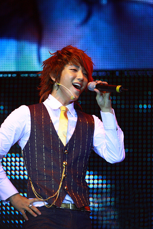 Photograph of Lee Jun Ki